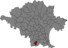 Location of Vilaür in Alt Empordà